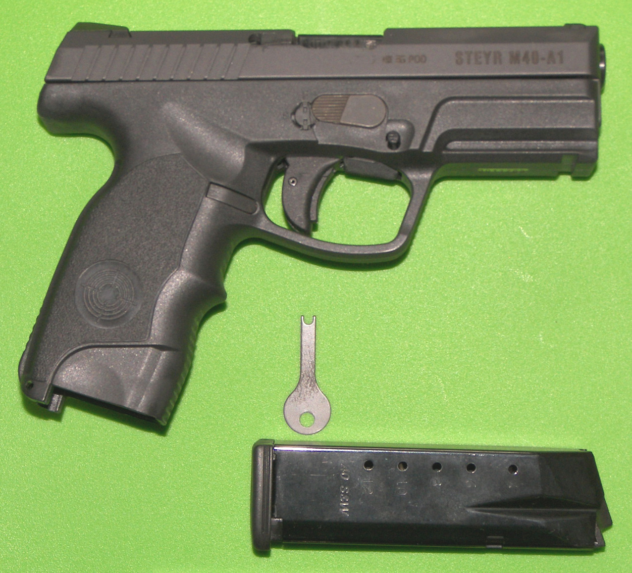 pistol Steyr Mannlicher M-A1 type Steyr M40-A1 (caliber .40 S&W) with magazine and limited access lock key